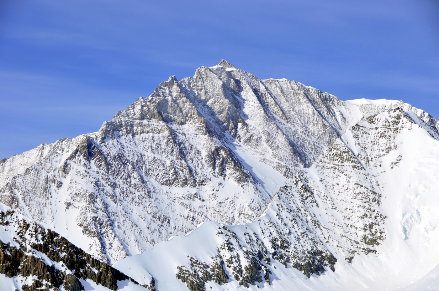 Mount Shinn (Antarctica) from North East by Christian Stangl (flickr)